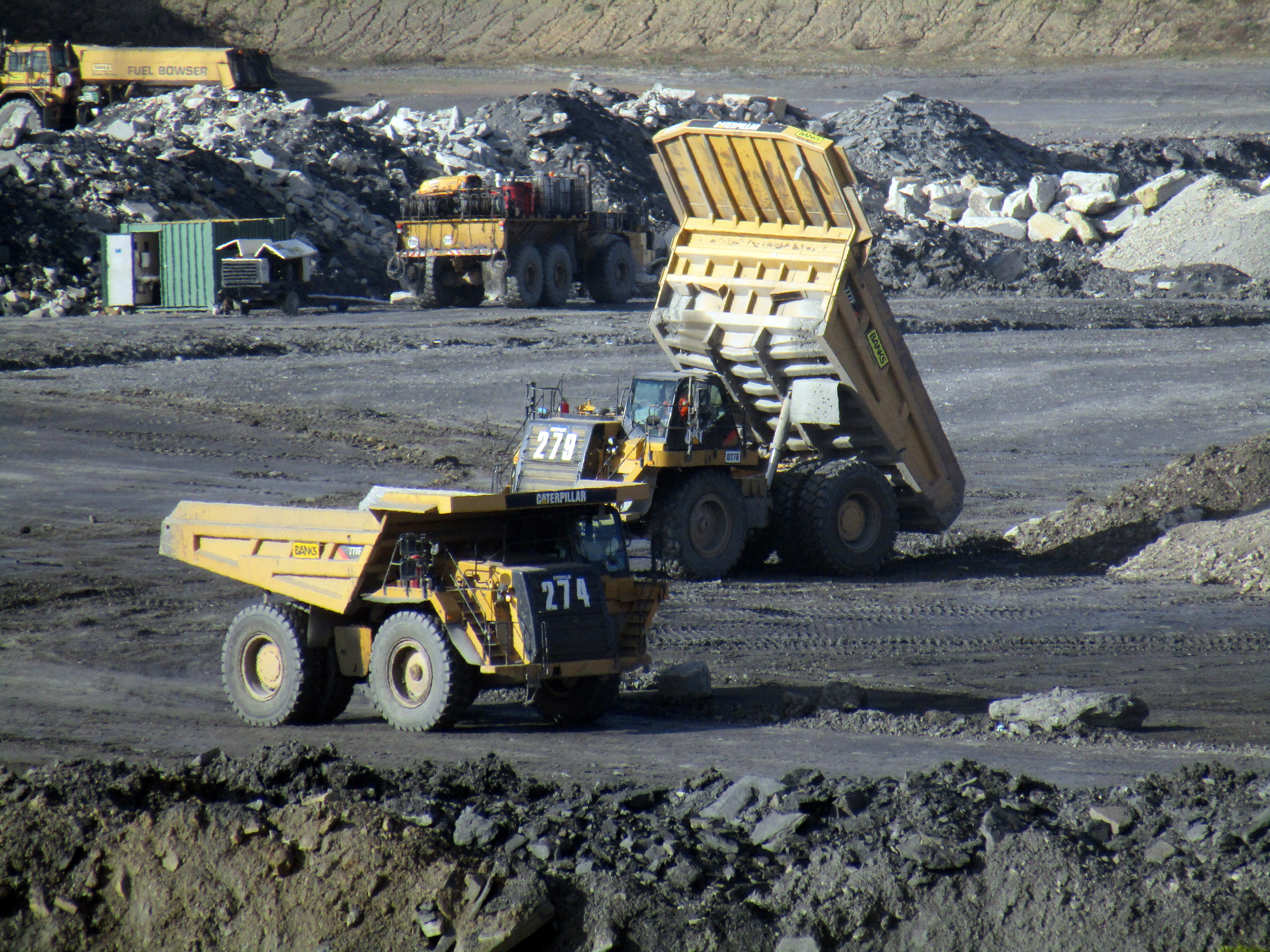 Large lorries at Shotton open cast coal mine, Northumberland.